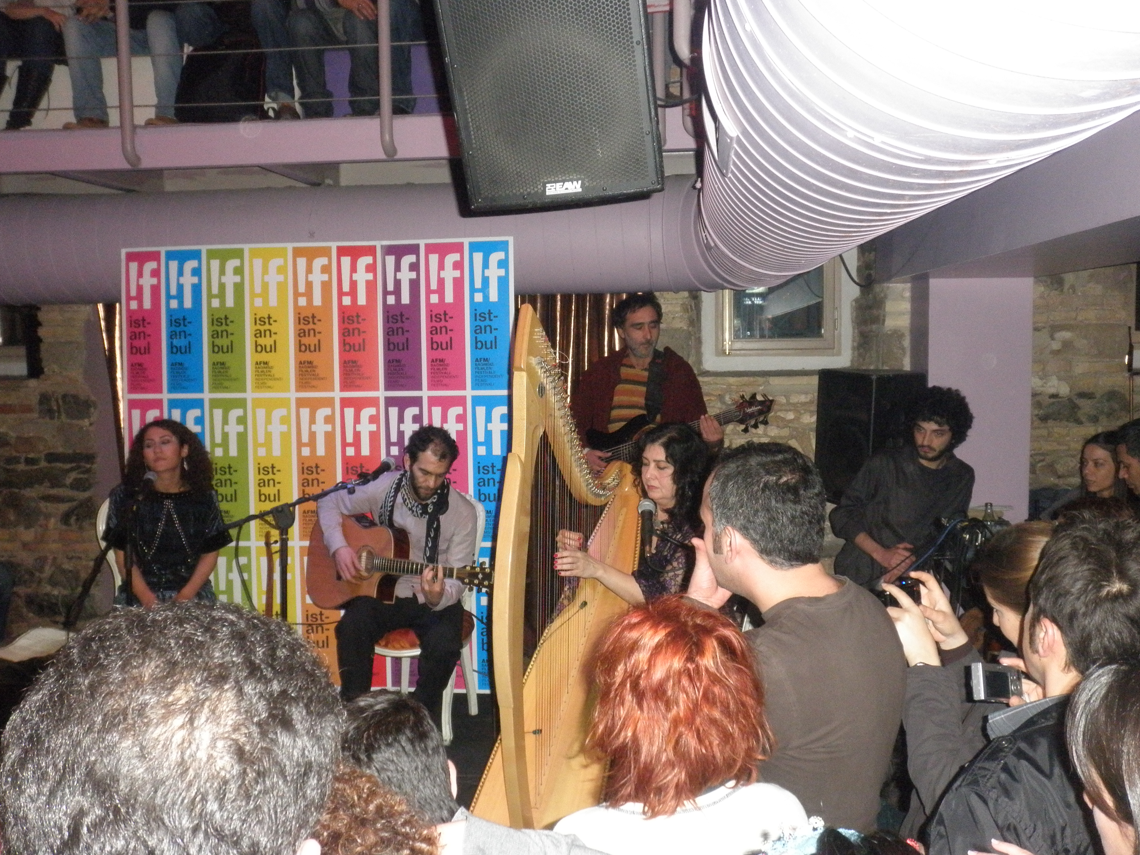 Musicians (Aynur Doğan, Mehmet Atlı, Tara Jaff) in Istanbul Festival (IF), 2011Kurdî: Muzîkvanên kurd (Aynur, Mehmet Atlı, Tara Caf) li festîvala Stembolê (IF), 2011